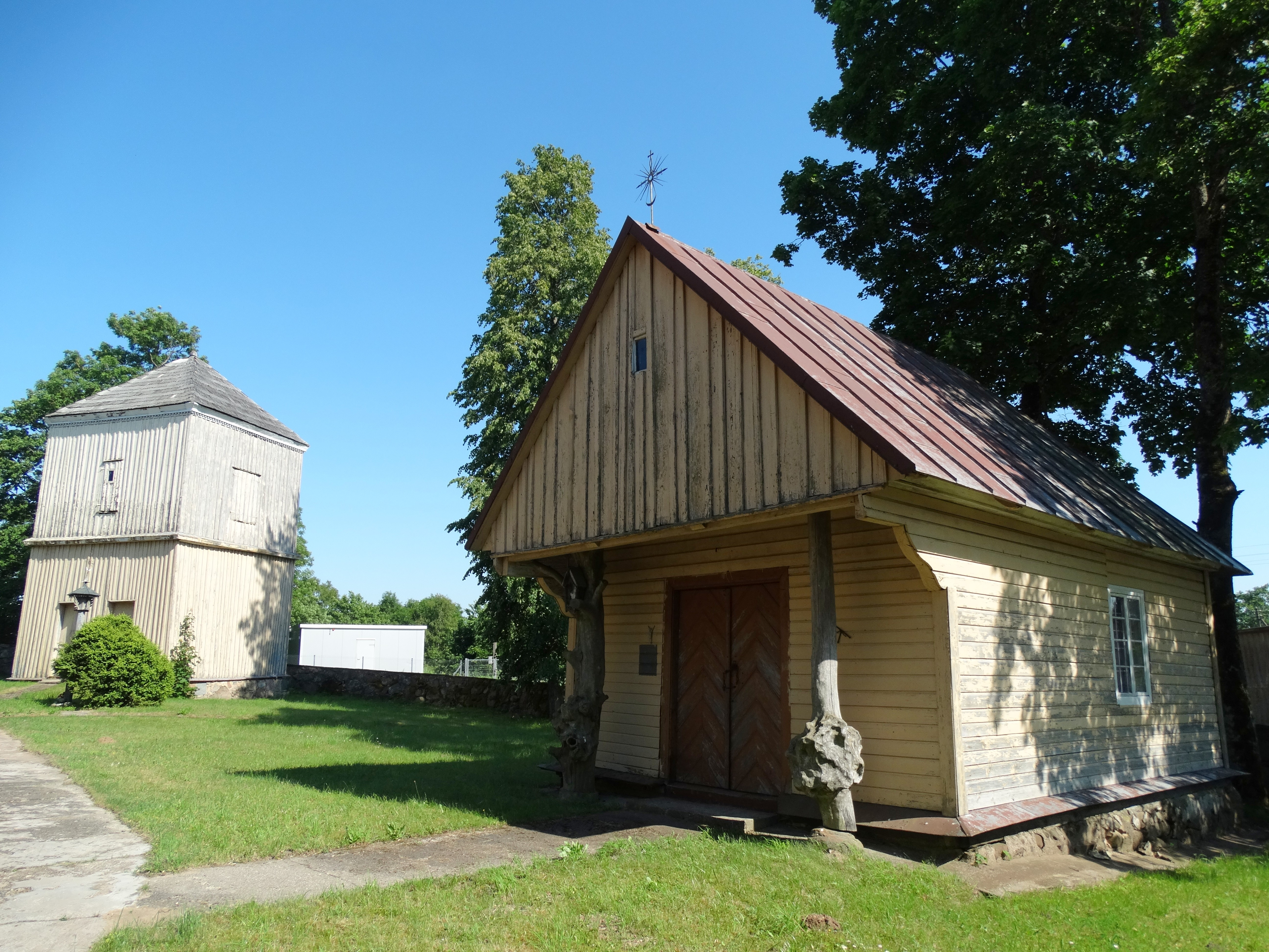 Roman Catholic Church, Kantaučiai, Plungė District, Lithuania